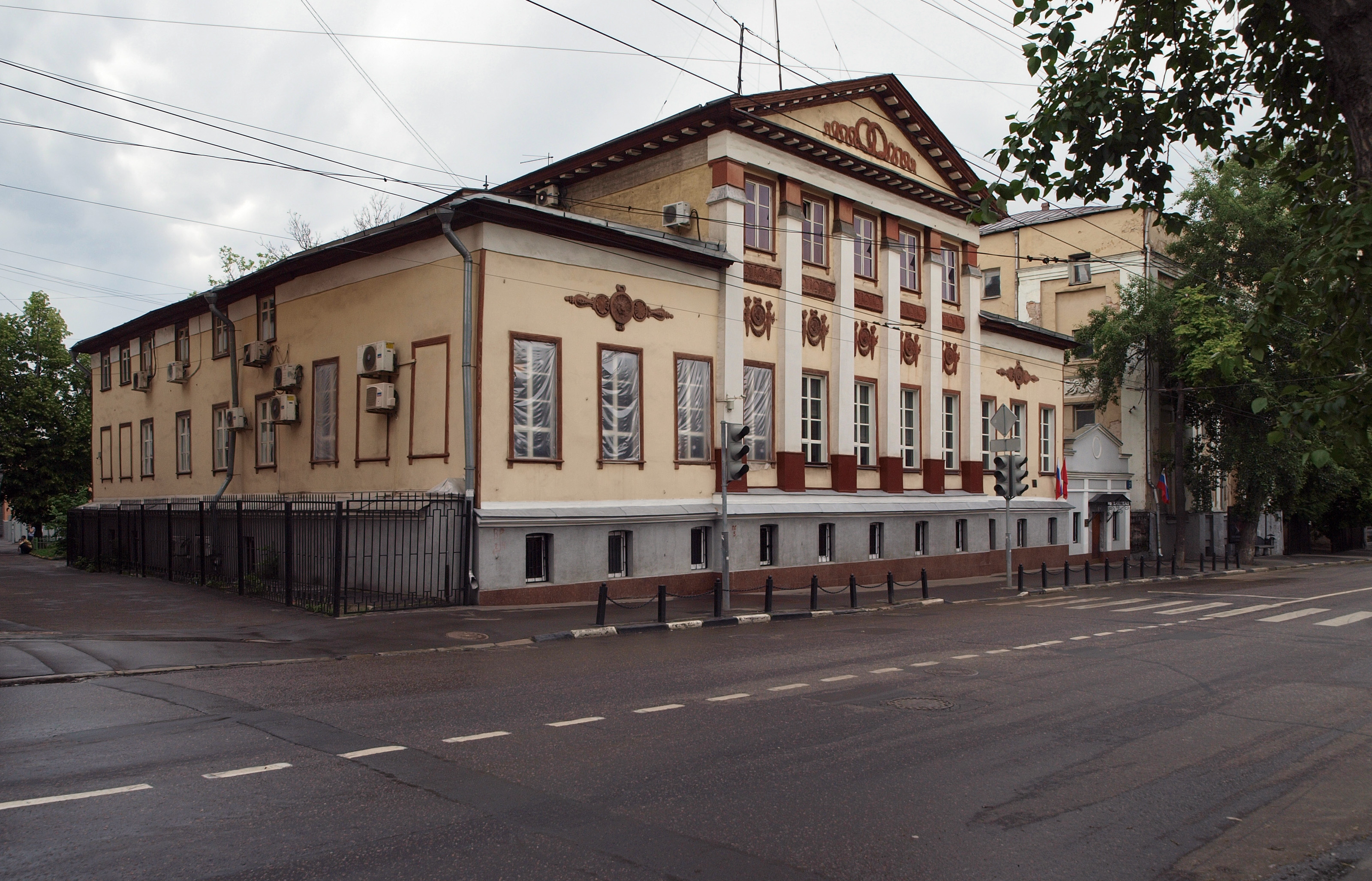 Novaya Basmannaya Street, Moscow.